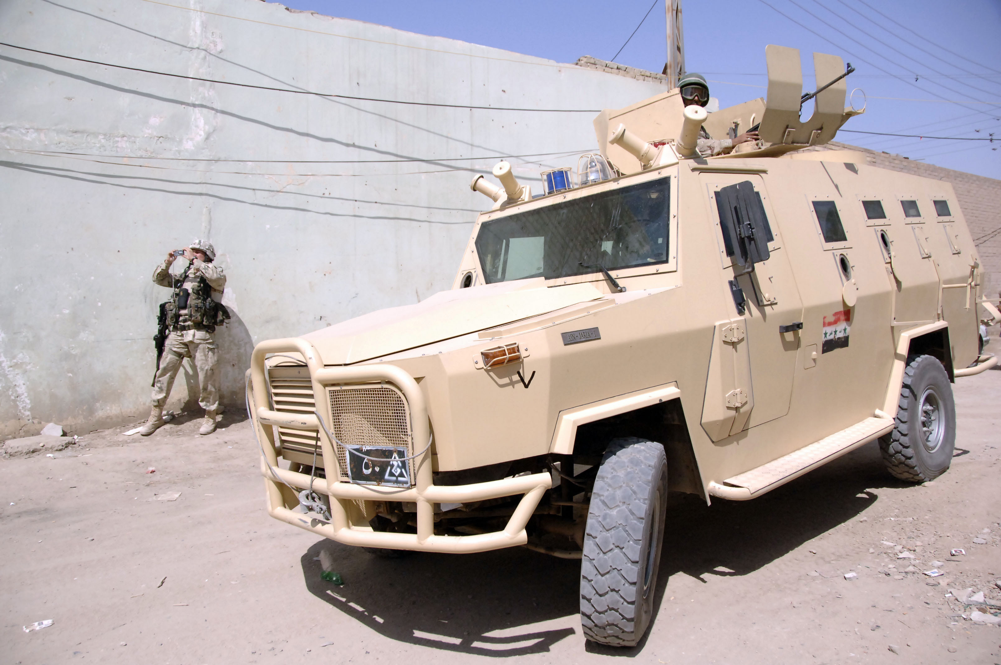 The Polish-made Dzik armored personnel carrier transports Iraqi army soldiers through Diwaniyah, Iraq, Sept. 26, 2007.